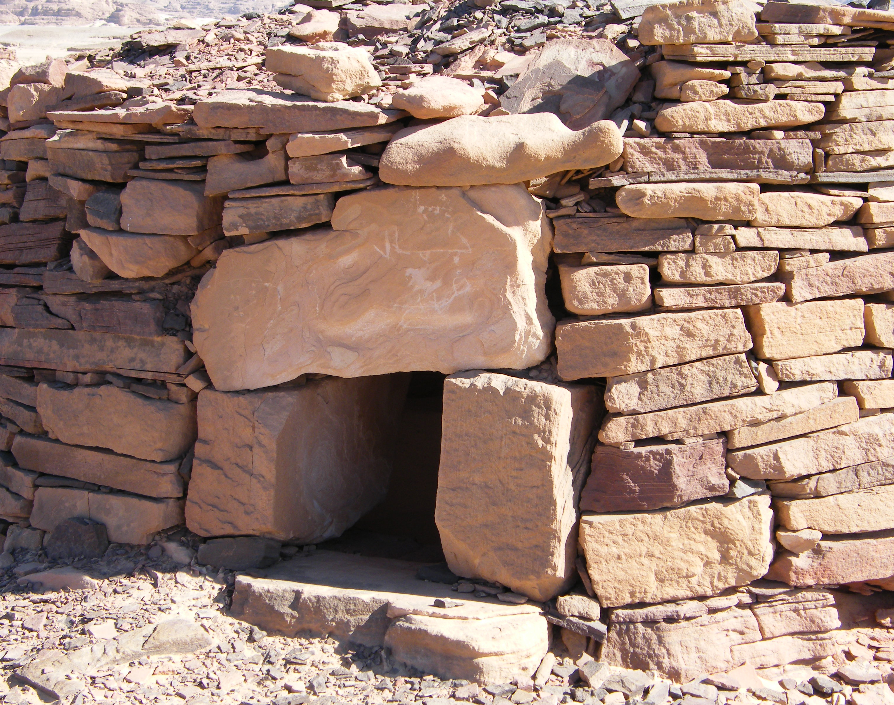 This is the entrance to a Nawamis. Nawamis are reputedly 3000 year old huts or tombs in the South Sinai region of Egypt